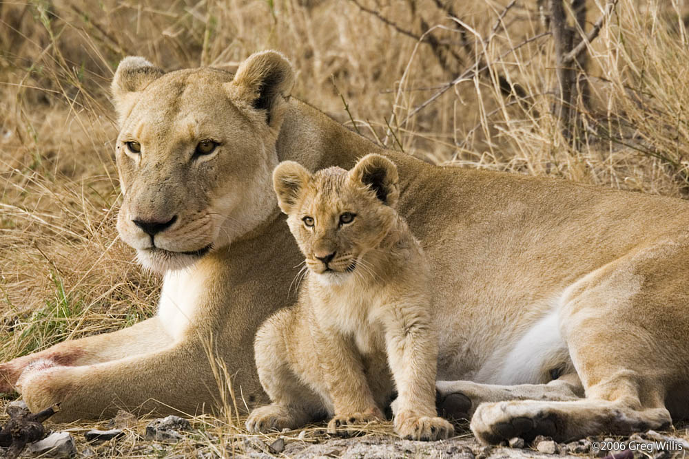 Lioness and cub, Otjiwarongo, Namibia